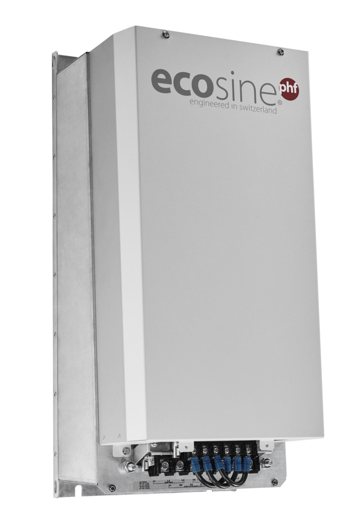 Passive Harmonic Filter FN3450-55-115-E2FAJRX (with Fan, Trap disconnect jumper and RC damper Module)